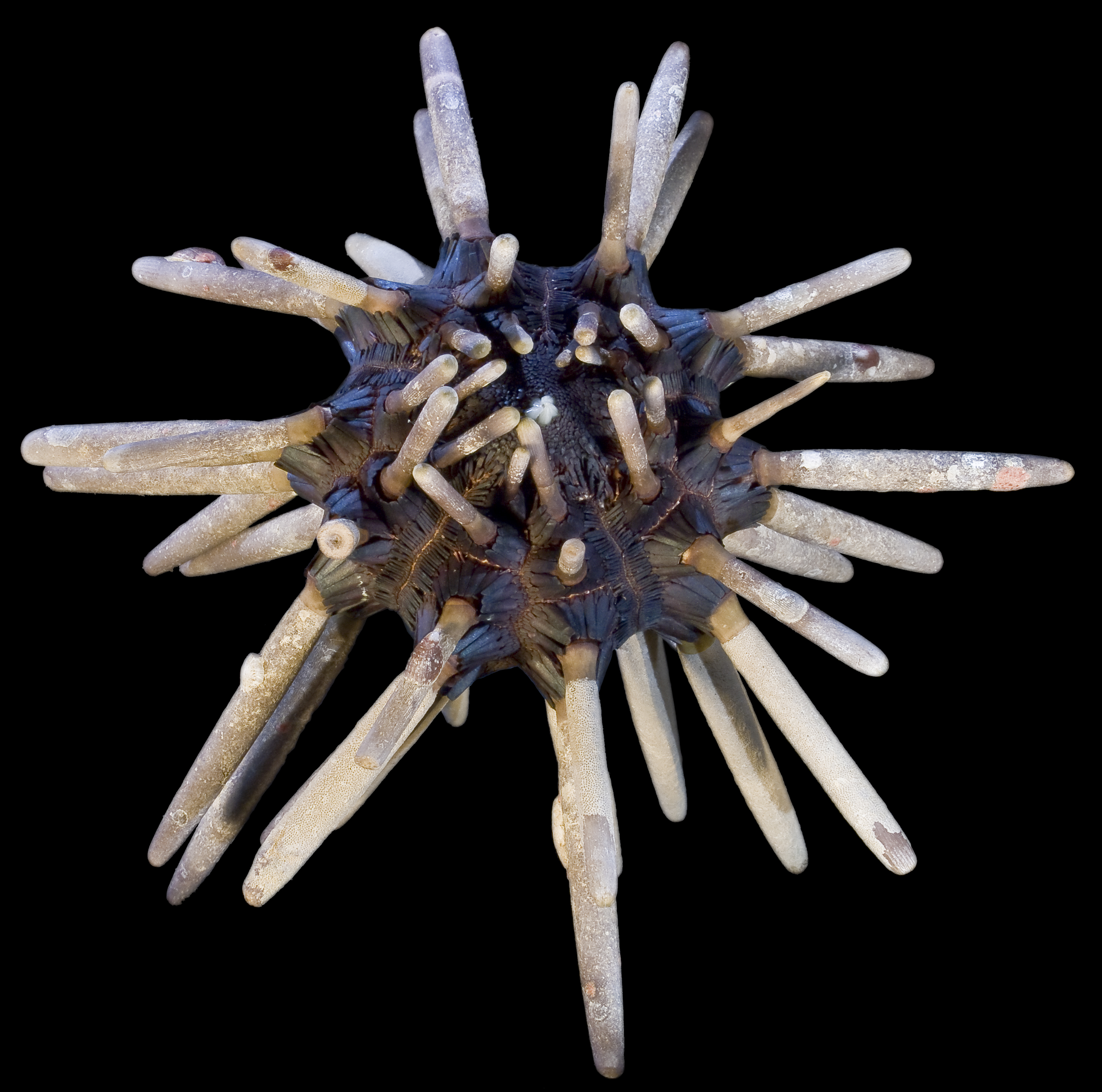 Phyllacanthus imperialis - pencil urchins - Ventral Side- Cidaridae - 22cm - Philippines